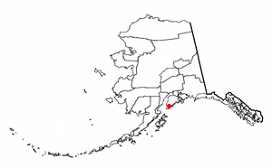 Adapted from Wikipedia's AK borough maps by Seth Ilys.